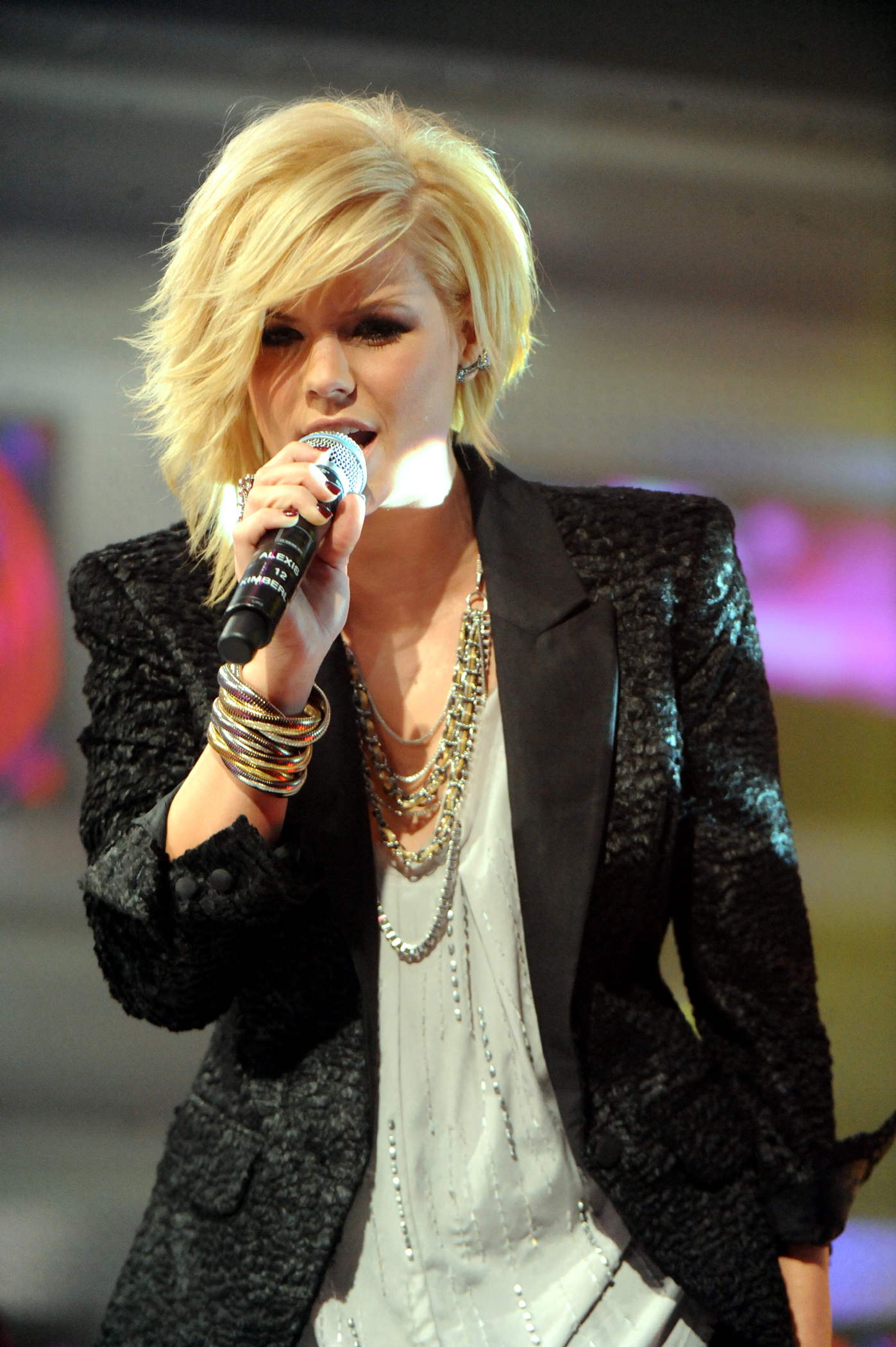 American Idol's second season seventh-place finisher Kimberly Caldwell performs at the 2009 Operation Rising Star finals, which she judged with Jack L. Tilley, American and Canadian Idol vocal coach/arranger Debra Byrd, and country music artist Michael Peterson.